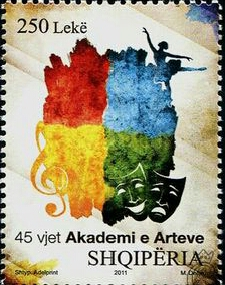 stamp of Albania dedicated to the Academy of Arts in its 46th anniversary